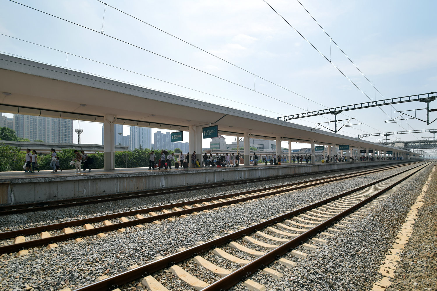 Platform 2-3 of Changde Railway Station, view towards Changde Xi (West) Railway Station.